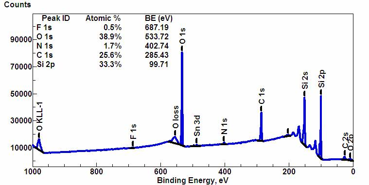 Example of a "Wide Scan Survey Spectrum" using XPS. Used to determine what elements are and are not present.